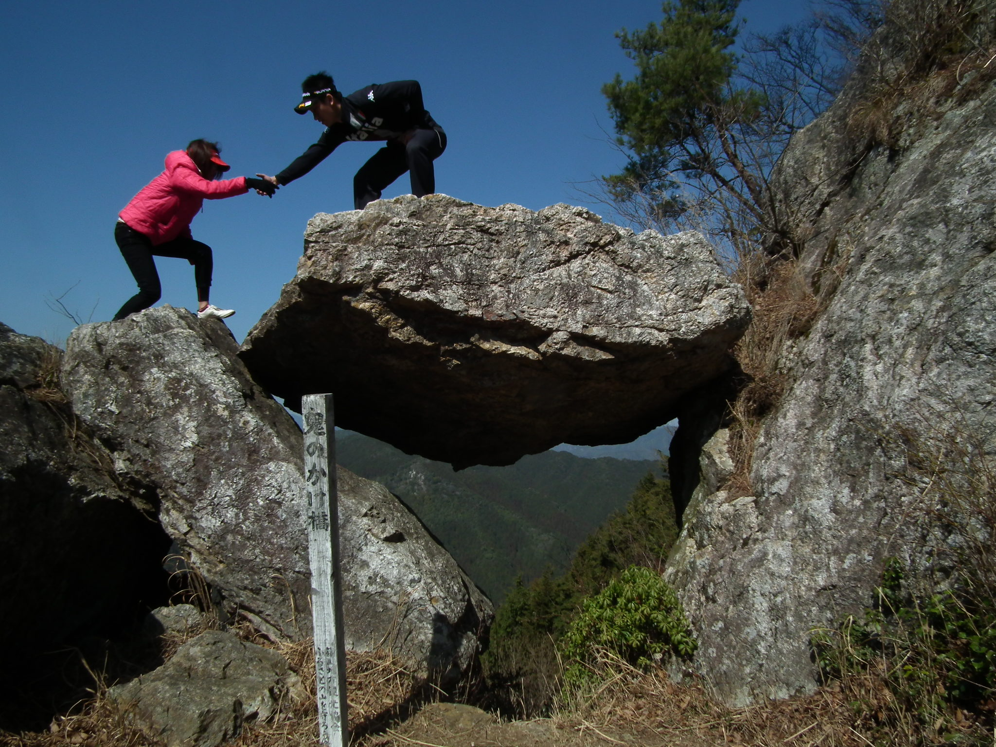 Oni-no-kakehashi